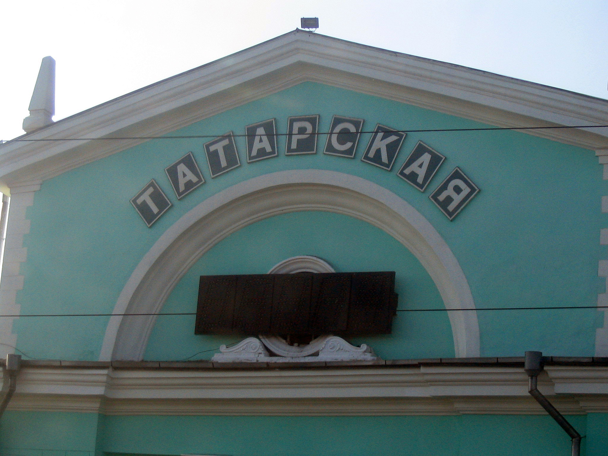 Railroad station at Tatarsk, Russia on the trans-Siberian railway. Taken by me 7/06, released into the public domain.